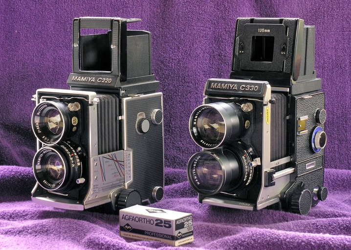 DANYvanvee